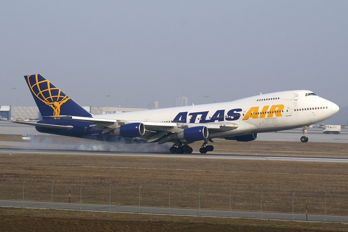 Atlas Air Boeing 747-200F N517MC at Stuttgart Airport